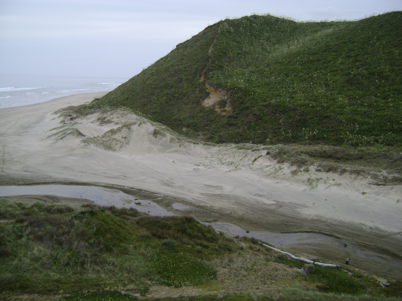 View of Moremonui from the Southern Hill